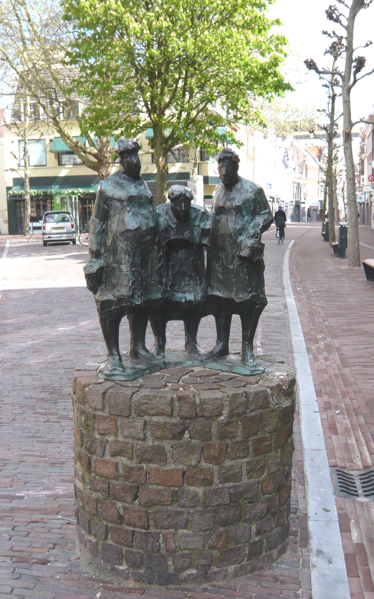 Statue of shopping women at the south entrance of the Grote Hout Straat in Haarlem. Created by Kees Verkade in 1966. This was his first big order for a bronze statue.